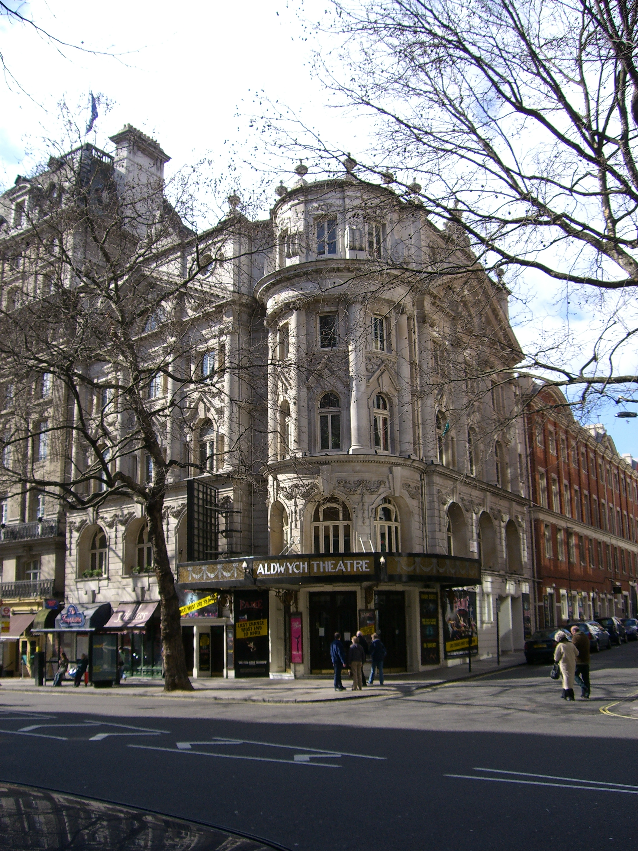 Aldwych Theatre, 49 Aldwych, London WC2B 4DF Photo taken by User:Edward on 19 March 2006 with a Casio EX-S600.